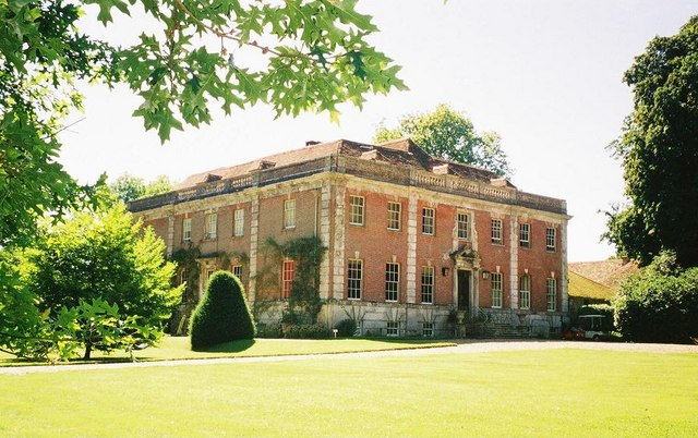 Wimborne Minster: Dean’s Court Dean’s Court was built in 1725 and is set in pleasant gardens which are occasionally open to the public.